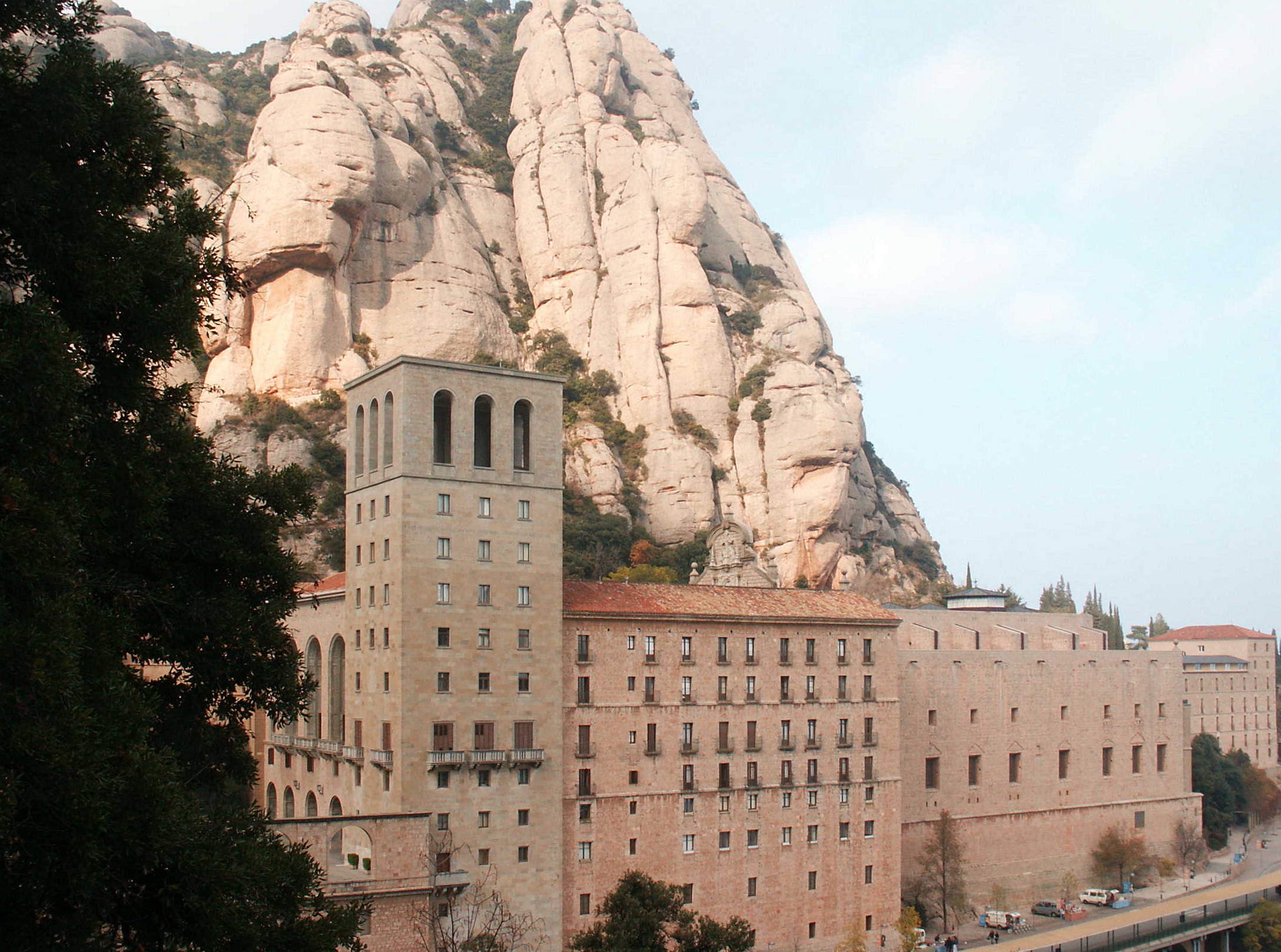 This photograph depicts the monastery at Montserrat in Catalonia, Spain. This is the second of two such pictures that I am uploading.